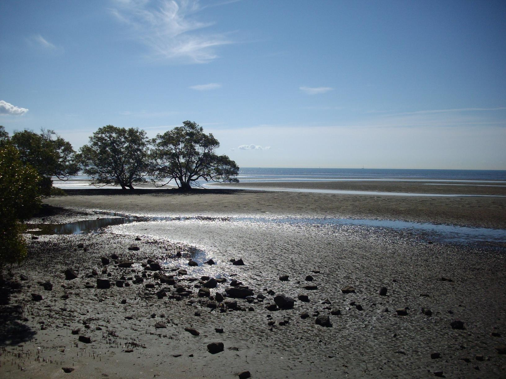 Photo self-taken with own camera.